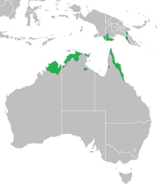 Rangemap of Banksia dentata across northern Australia, southern New Guinea and Aru Islands (Trangan). Map adapted from File:Aust-PNG.png and source info from The Banksia Atlas (Australian Flora and Fauna Series Number 8). Canberra: Australian Government Publishing Service. ISBN 0-644-07124-9. published in 1988. p. 89 and George 1981 Banksia monograph p. 276